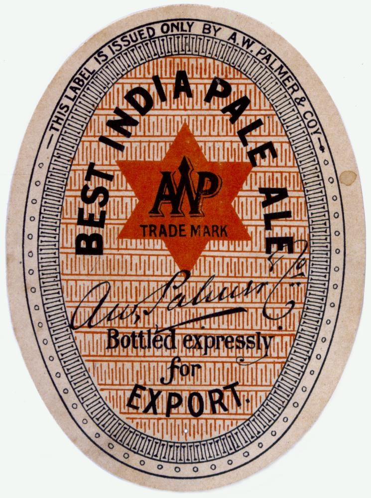 Creator: Unidentified Description: The label bears the signature of A. W. Palmer. Label reads: Best India Pale Ale, bottled expressly for export. This label is issued only by A. W. Palmer & Co. View this photo at the State Library of Queensland: Information about State Library of Queensland’s collection